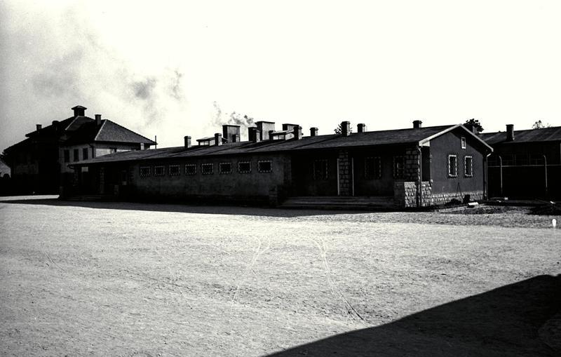 Information added by Wikimedia users.